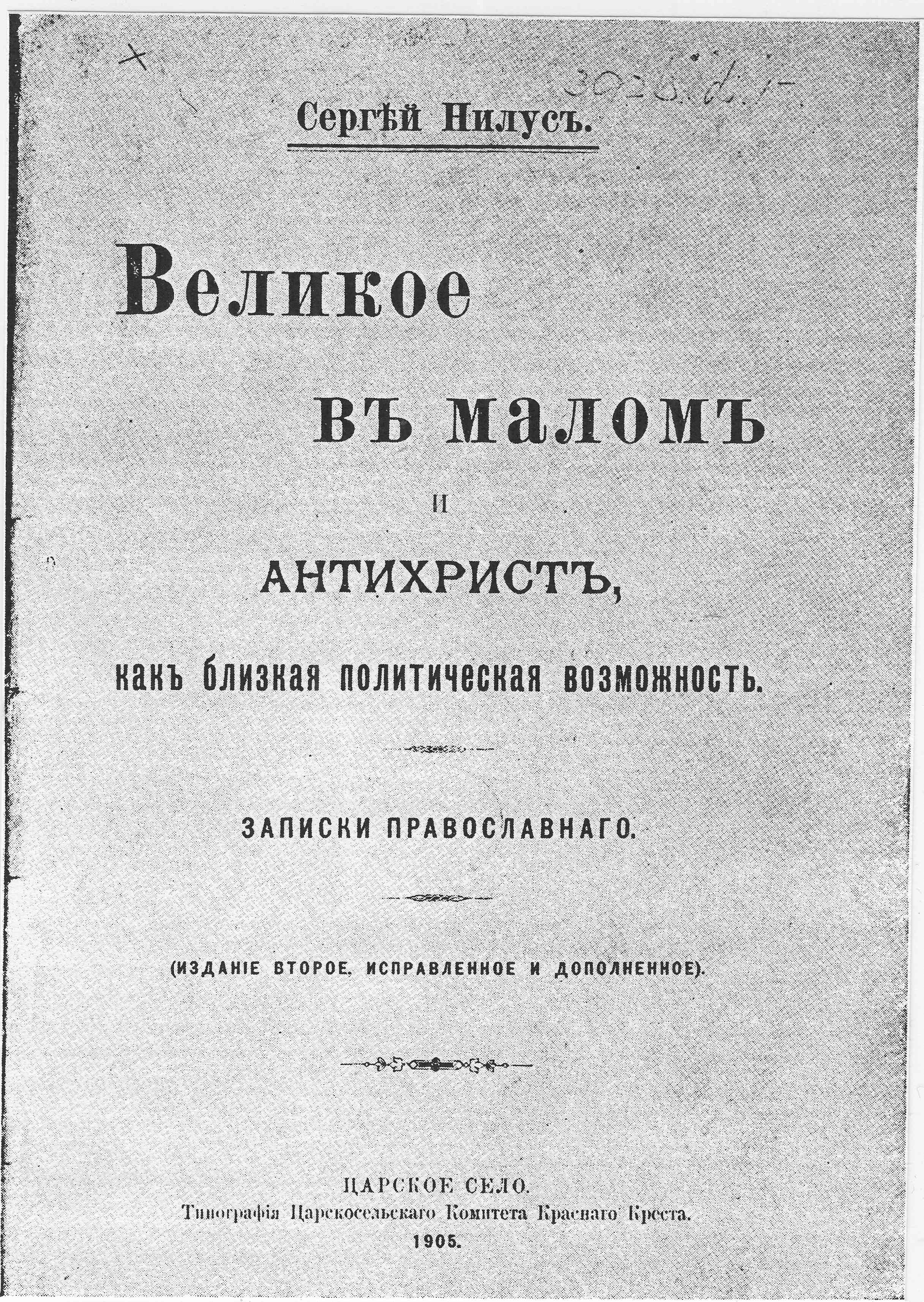 Title page of Velikoe v malom (1905) by Serge Nilus from Praemonitus Praemunitus (1920) by Harris A. Houghton (anonymous